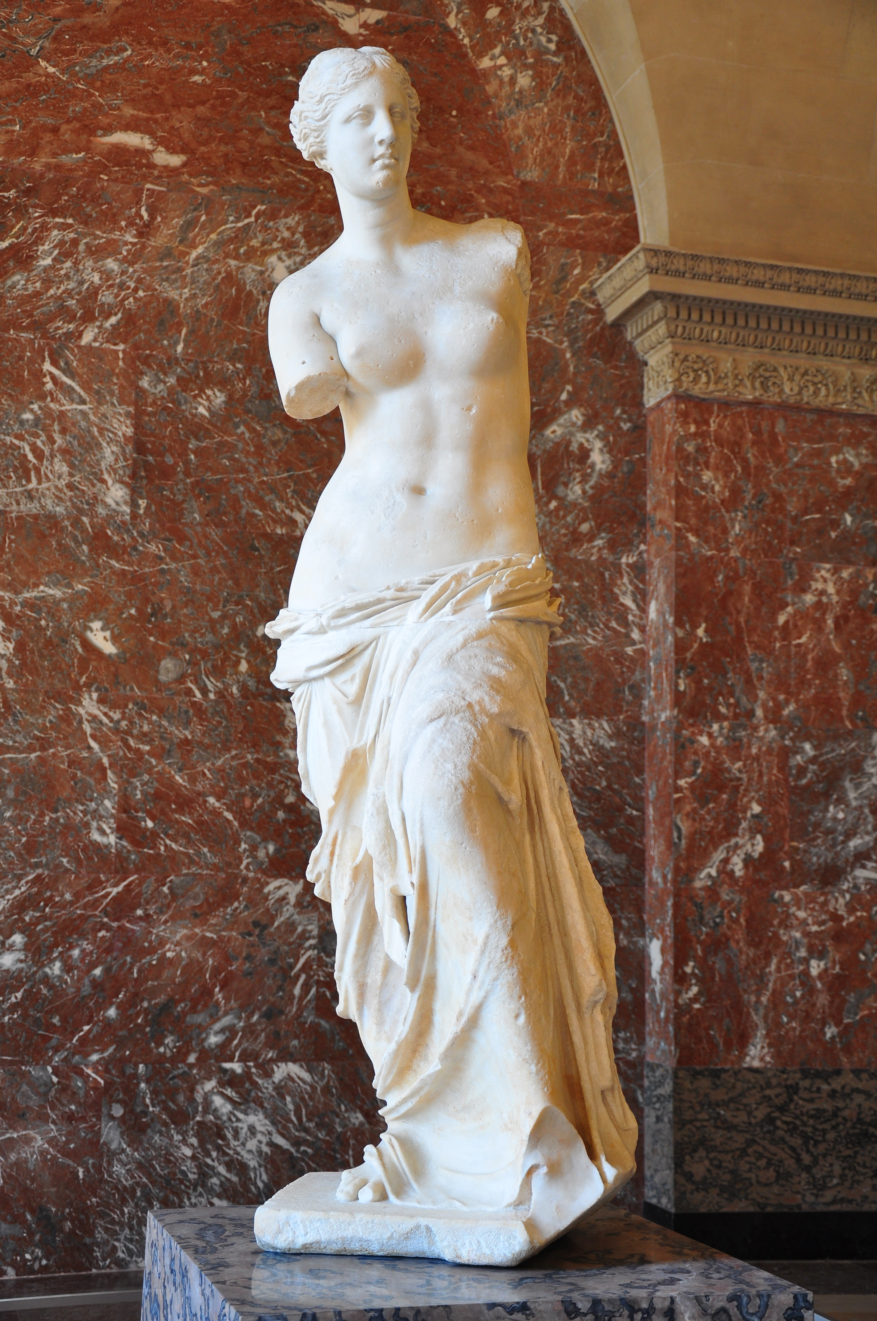 Front views of the Venus de Milo.